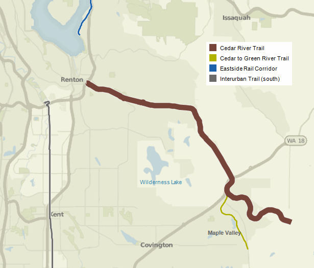 Map of Cedar River Trail. Created with Tableau.